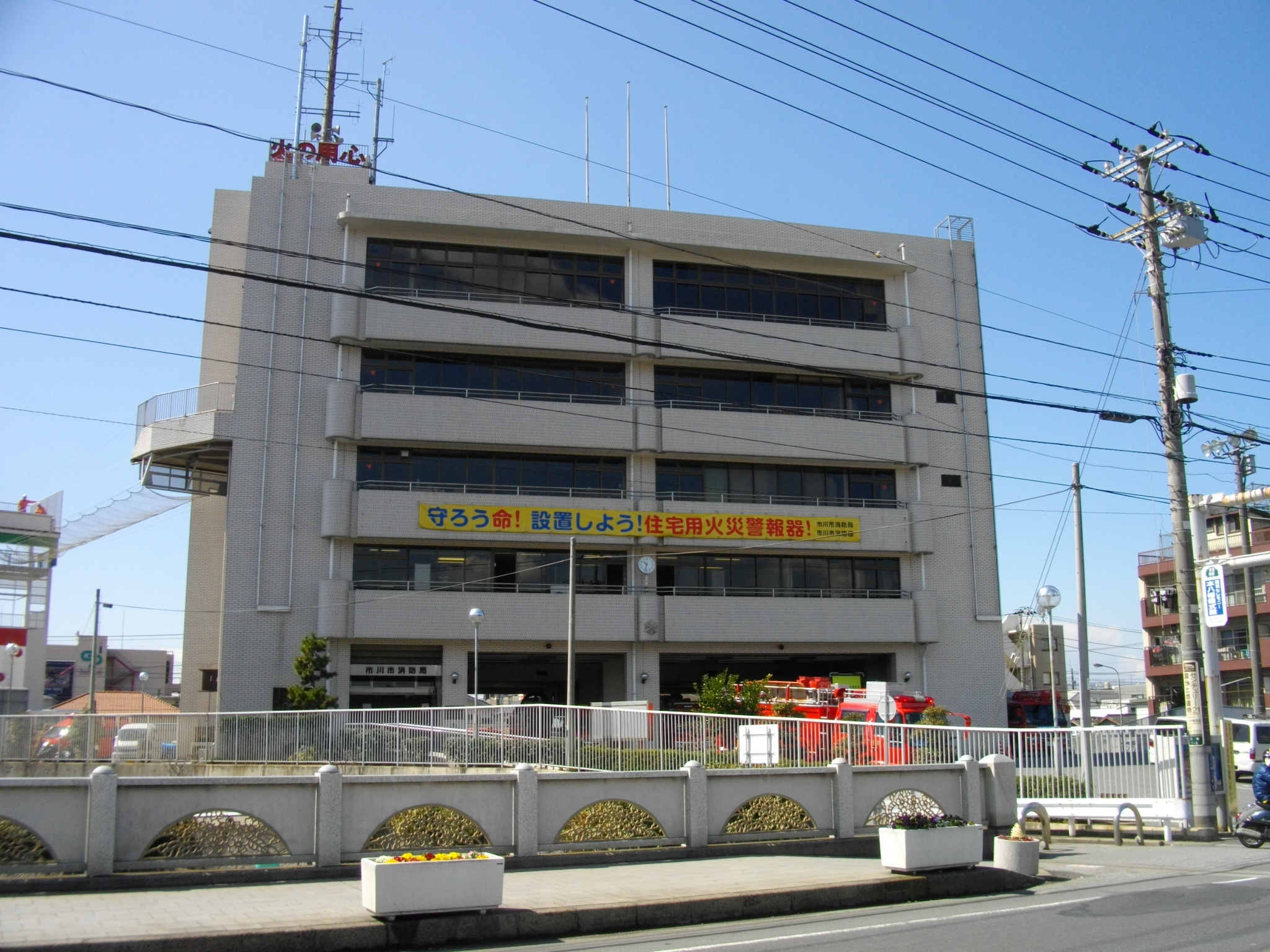 Ichikawa City Fire Department